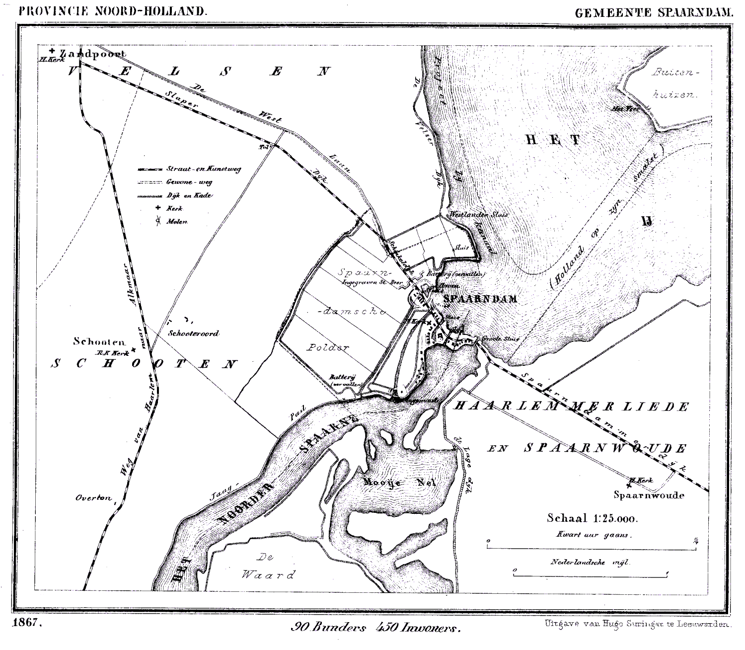 Historic map of Spaarndam (now part of municipality Haarlem), North Holland, the Netherlands